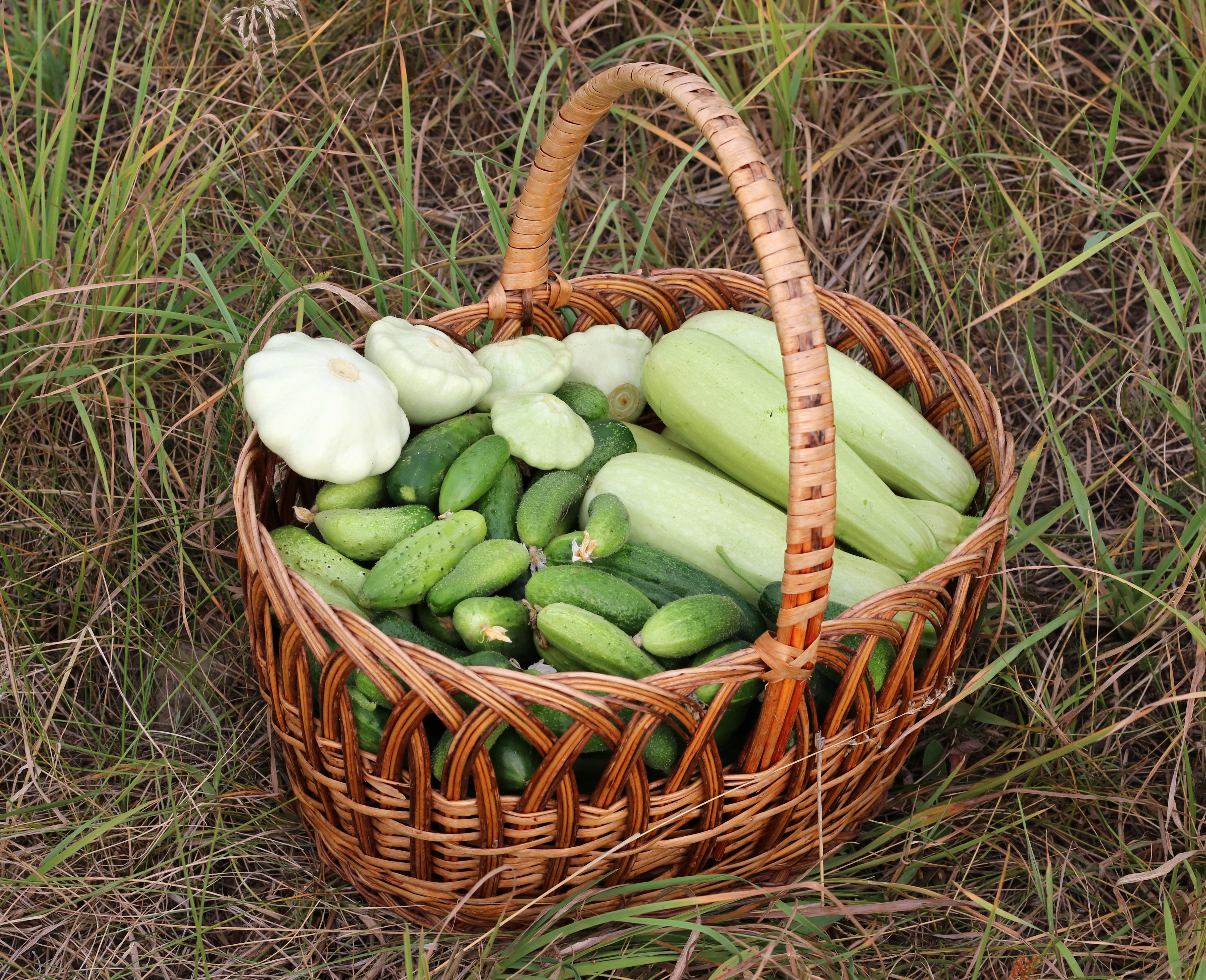 Basket with vegetables. Cucumbers, vegetable marrows and bush pumpkins. Ukraine, Vinnytsia Oblast, Vinnytsia Raion.